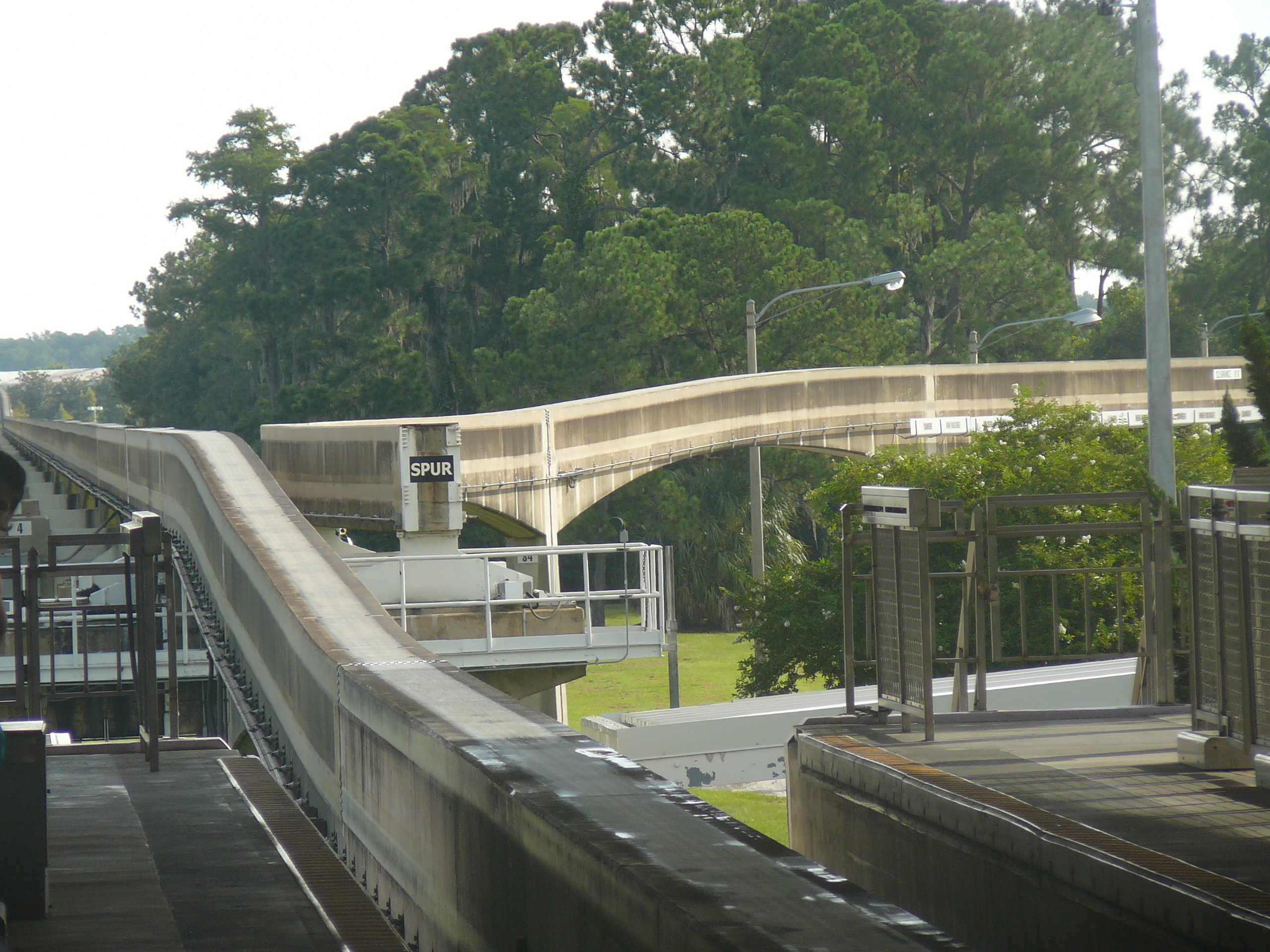 Walt Disney World Monorail System Spur Line from the Express Line to the Epcot Line, seen from the Magic Kingdom Express Monorail Station at the Ticket and Transportation Center